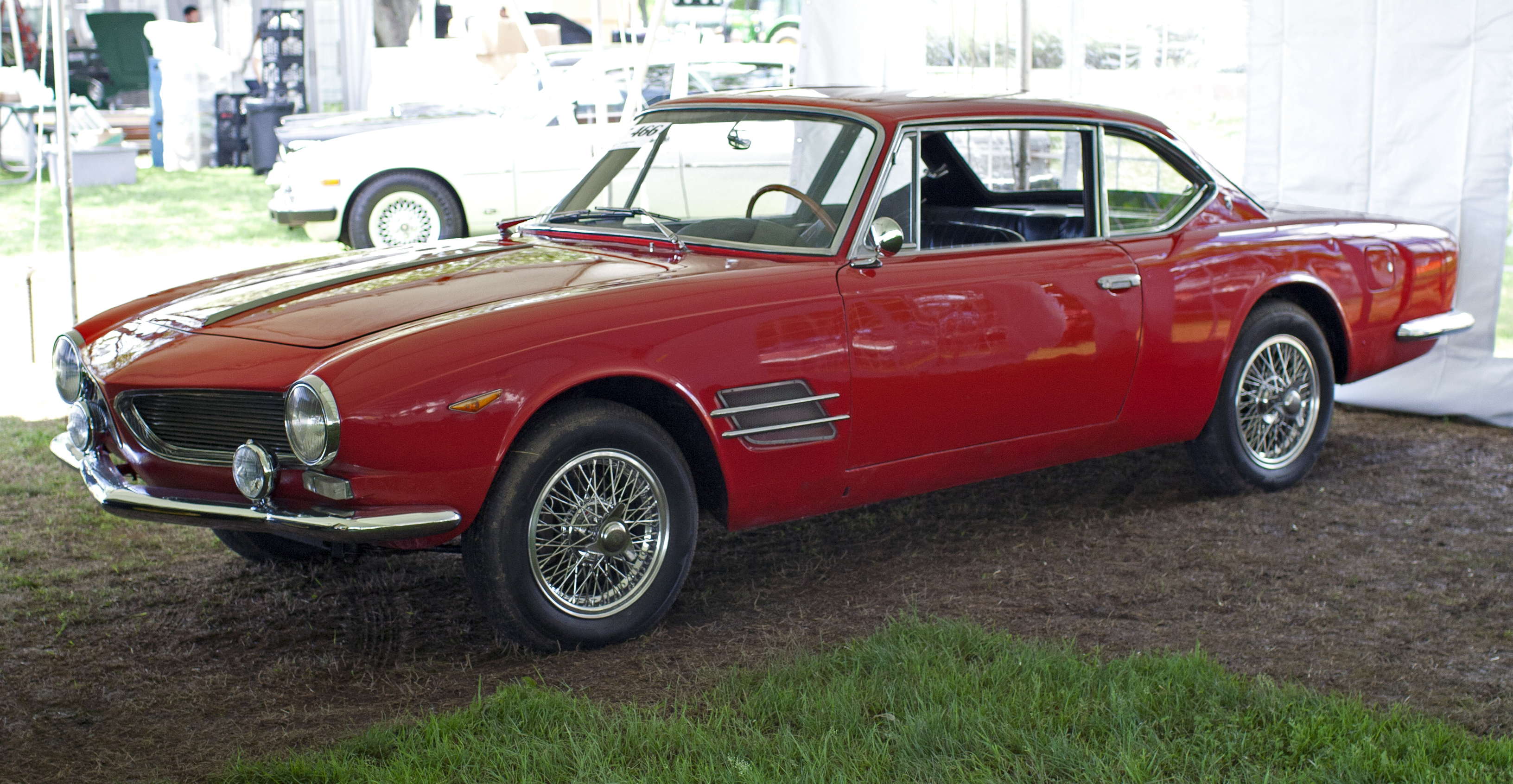 1963/64 Moretti 2500 SS Coupé, bodywork design by Giovanni Michelotti and Fiat 2300-basis. Brought up to 2,454 cc and 170hp, if not the normal configuration from FIAT was used. It is believed that only about twenty up to max. 40 coupes and convertibles were built - this one was briefly owned by musician J. Geils. Up for sale at the June 3, 2012 Bonham's Auction at the Greenwich Concours d'Elegance.